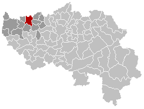 Map, municipality belgium Waremme